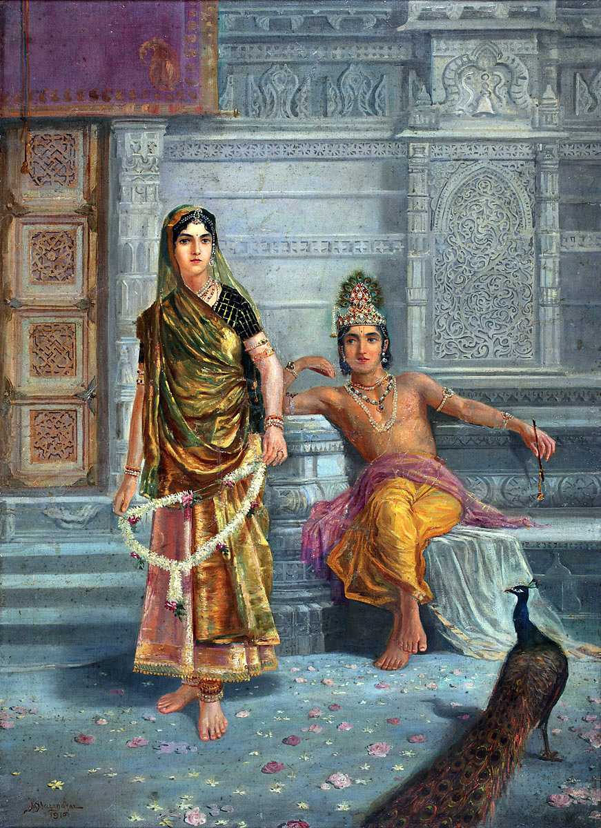 Radha and Krishna 1915 Oil on canvas 26.0 X 36.0 in. (66.0 X 91.4 cms) Signed in English (lower left) Code : DHURANDHARMV96